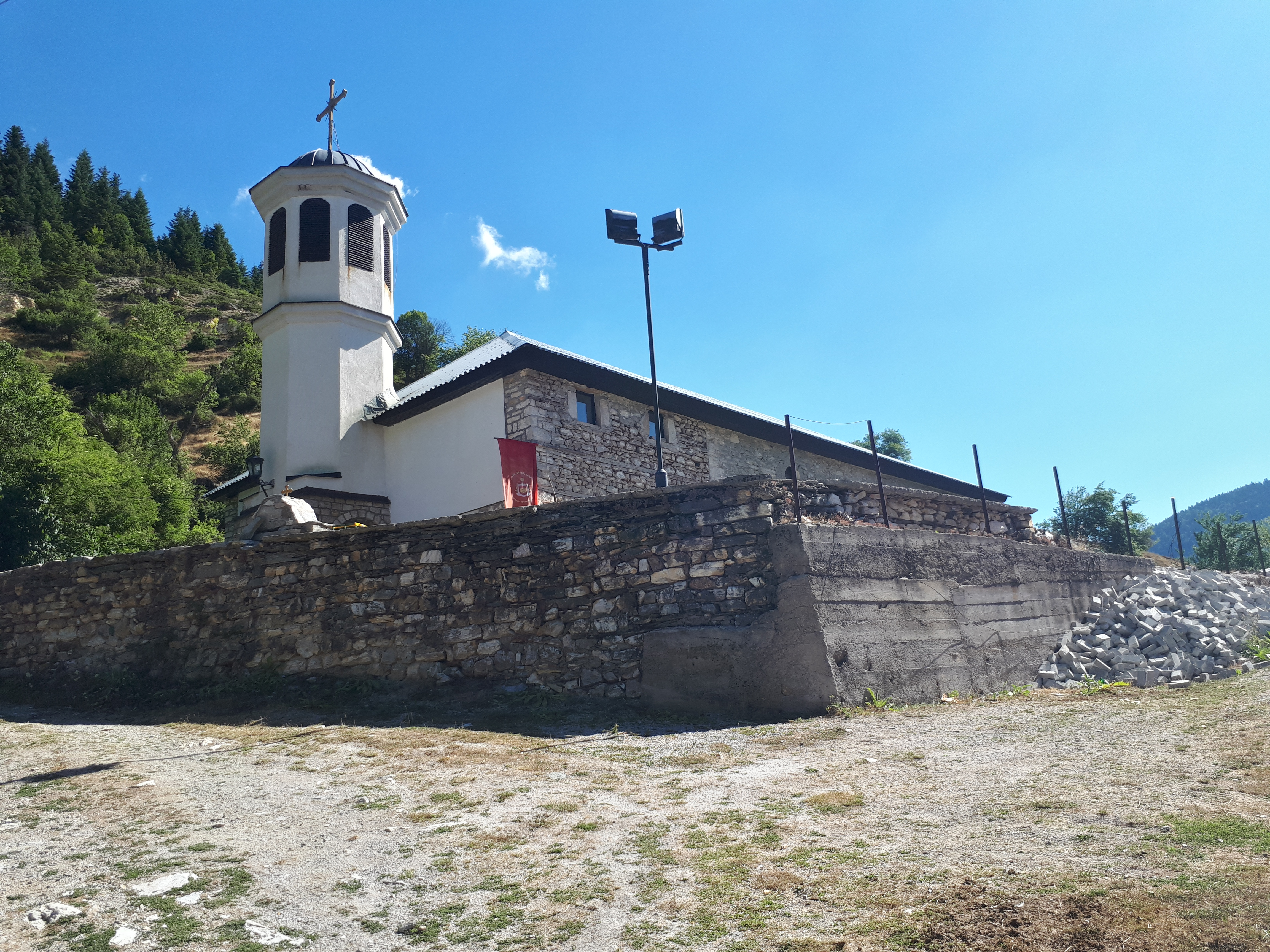 St. Nicholas Church in the village of Vrben